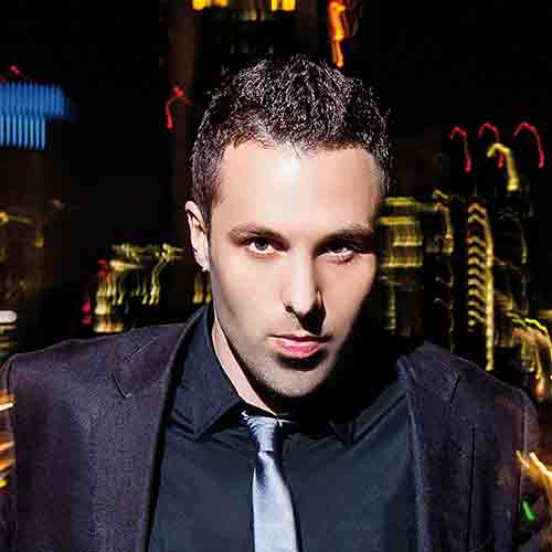 Picture of Nyls